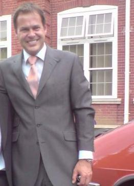 Peter Jones outside Desborough school